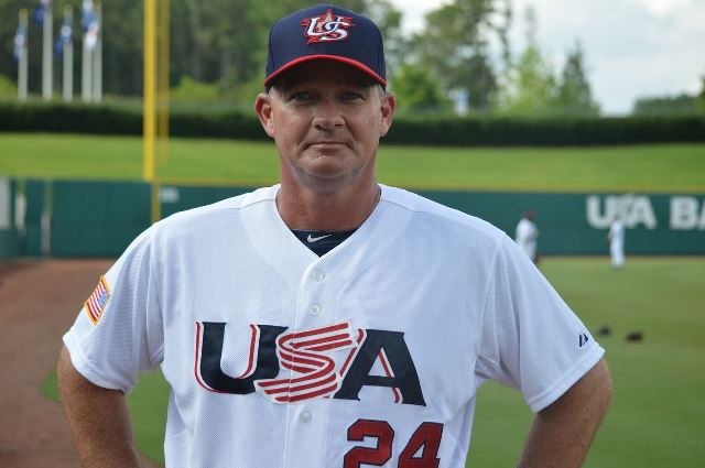 Gary Denbo in June 2014 as Hitting Consultant with USA Baseball Collegiate Team